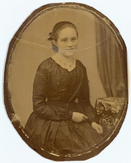 Mathilde Fibiger